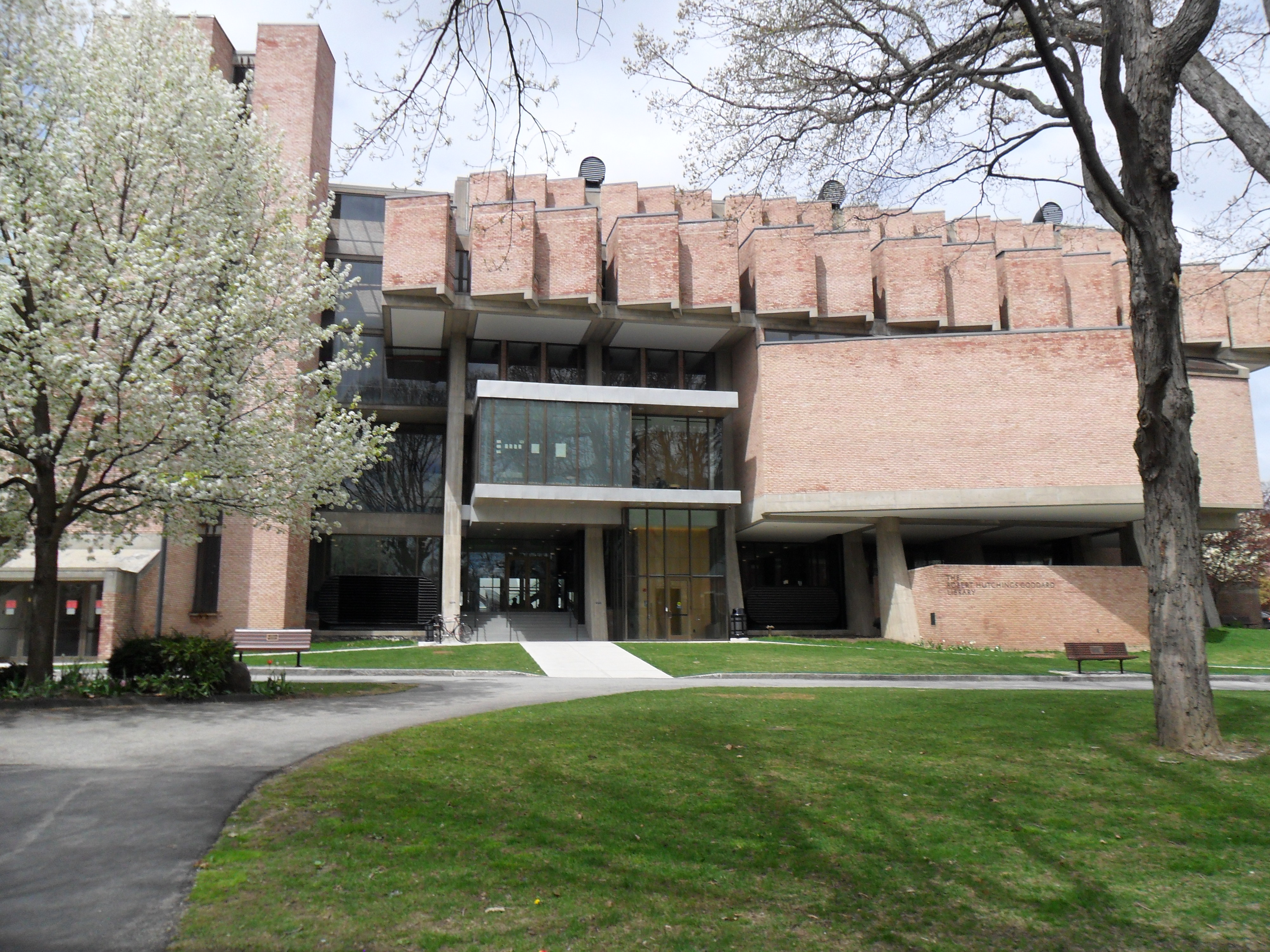 Goddard Library in April 2010